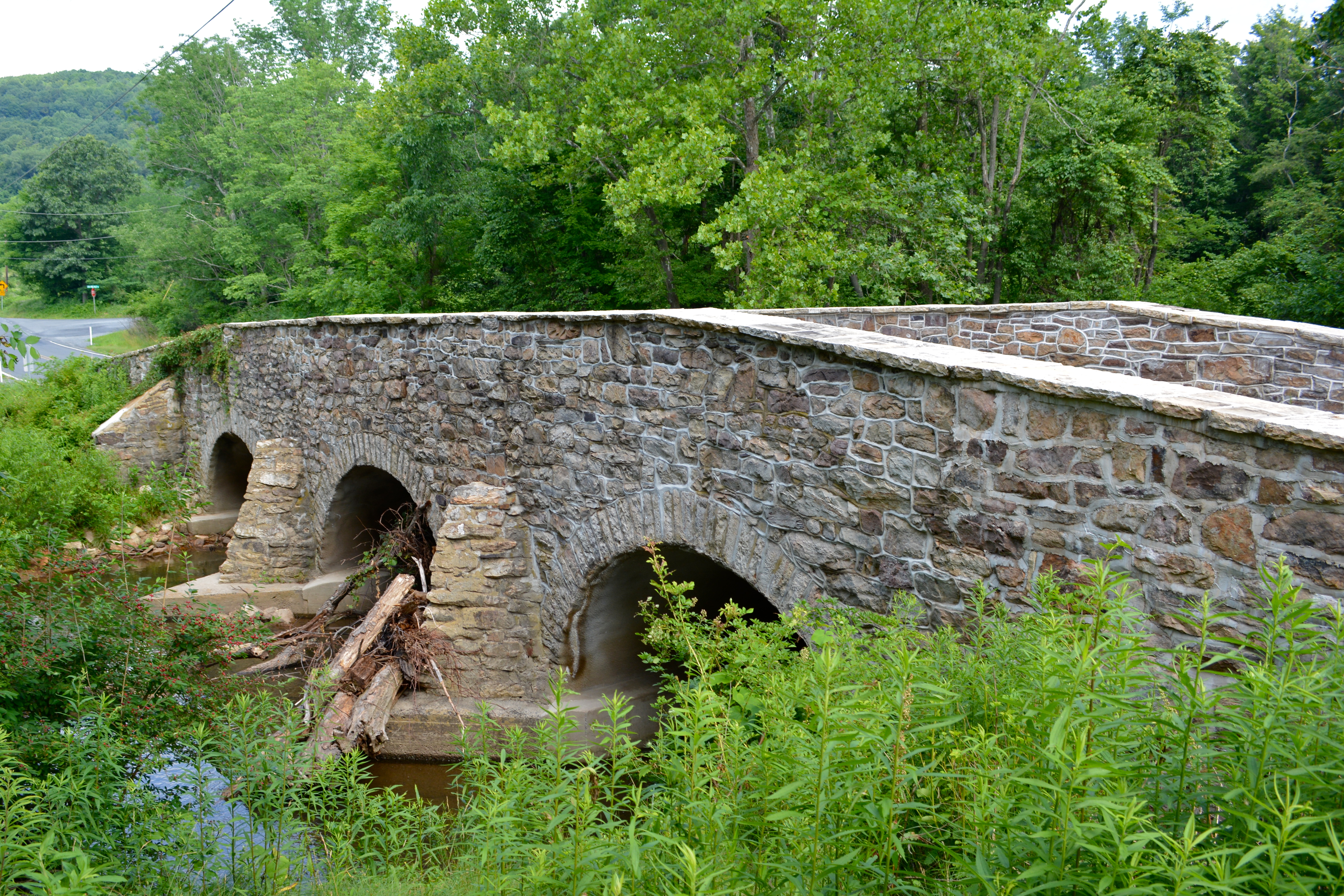 Horse Valley Bridge listed on the NRHP on June 22, 1988 (#88000775) Legislative Route 28093 over Conodoguinet Creek near Upper Strasburg, Letterkenny Township, Franklin County, Pennsylvania. The road is now numbered 4004 and is known as Upper Strasburg Road, and was formerly part of the very old Three Mountain Road, Near by Skinner Tavern which George Washington visited or rode by in 1784 during the Whiskey Rebellion - he didn't like the road